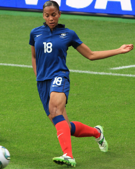 Marie Laurie Delie playing for France in the 2011 FIFA Women's World Cup